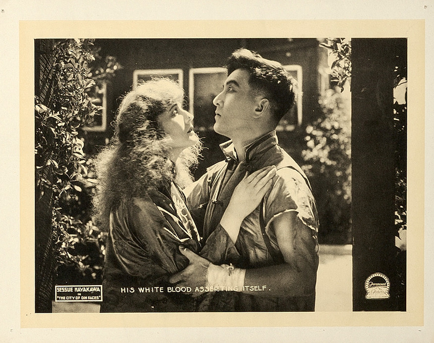 The City of Dim Faces is a lost 1918 silent film directed by George Melford and starring Sessue Hayakawa. It was produced by Famous Players-Lasky and distributed by Paramount Pictures. This is a lobby card for the film.